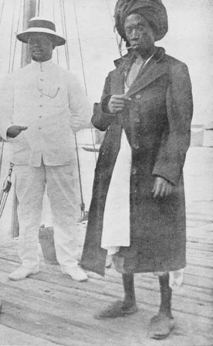 The_Negro_as_a_Frenchman_at_Rufisque